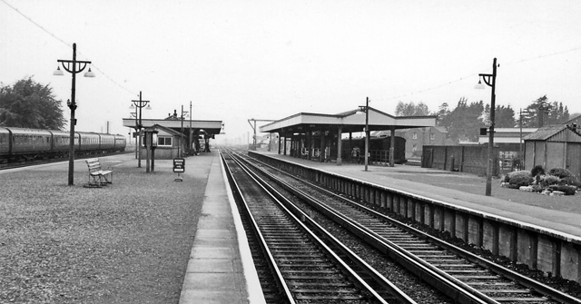 Barnham (Sussex) Station. View westward, towards Havant and Portsmouth, also Bognor Regis; a station still very alive, on the Brighton - Portsmouth main line and the junction for Bognor Regis.